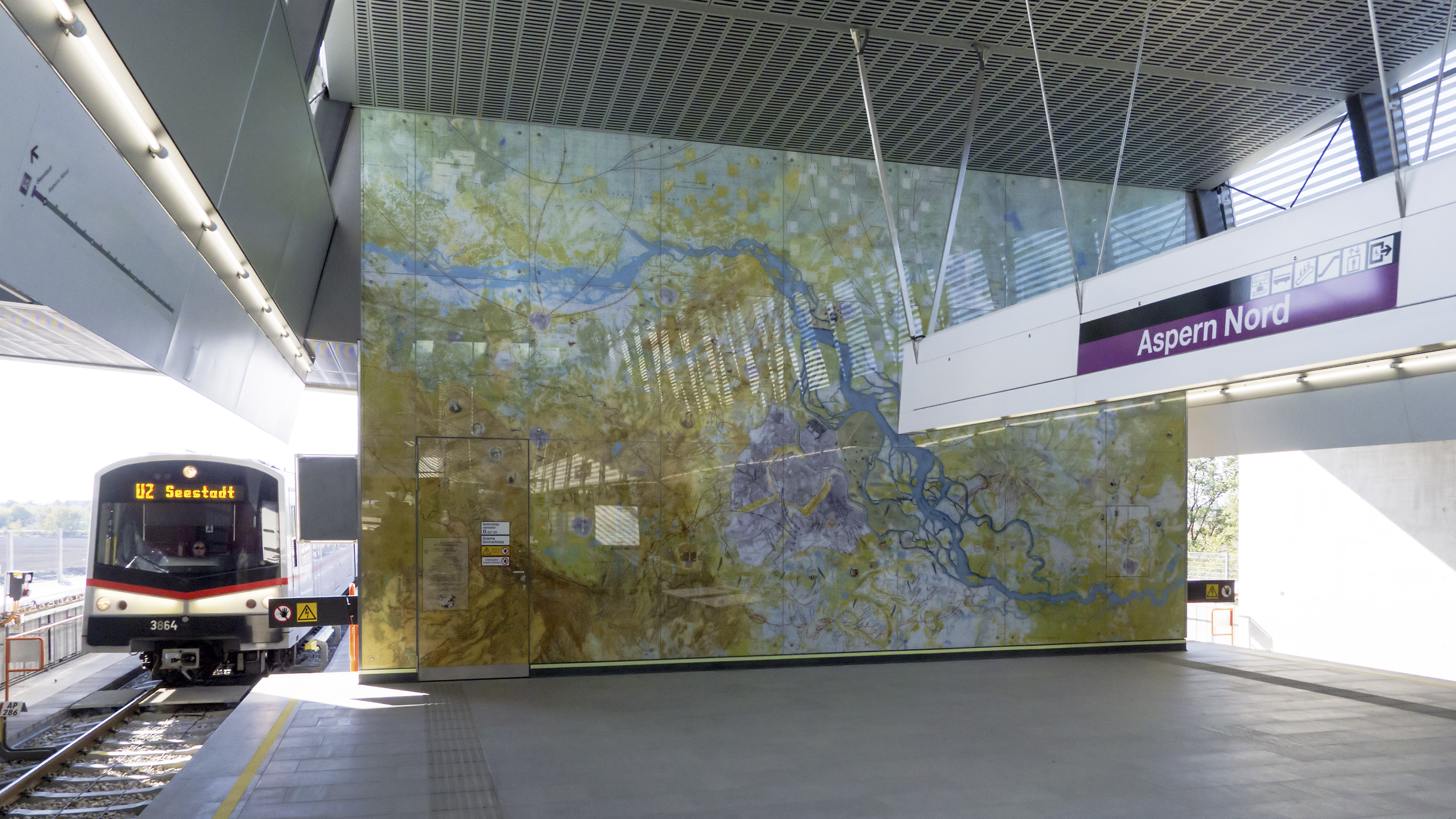 Underground station Aspern Nord of line U2 in Vienna 22